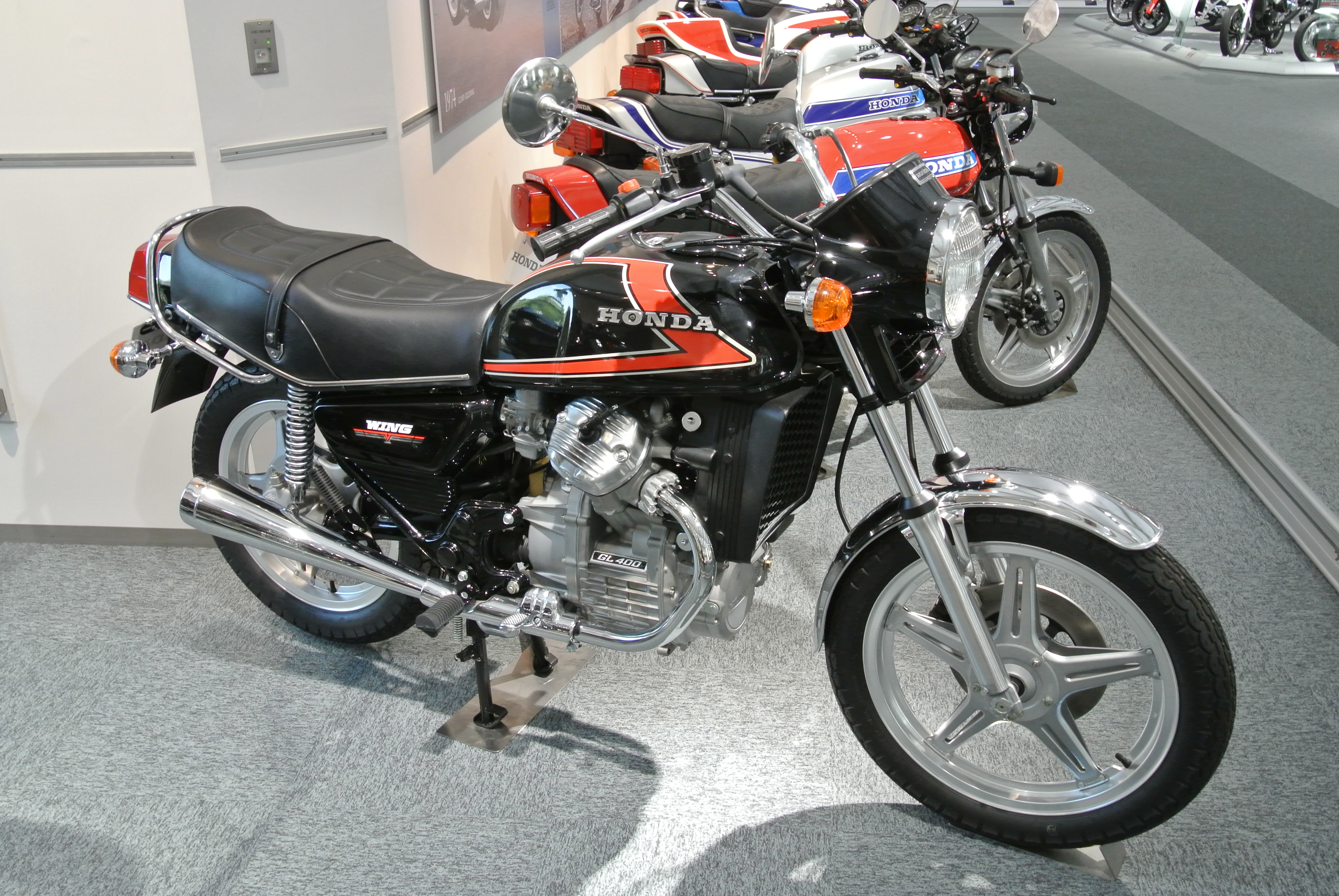 Honda WING GL400 in the Honda Collection Hall.